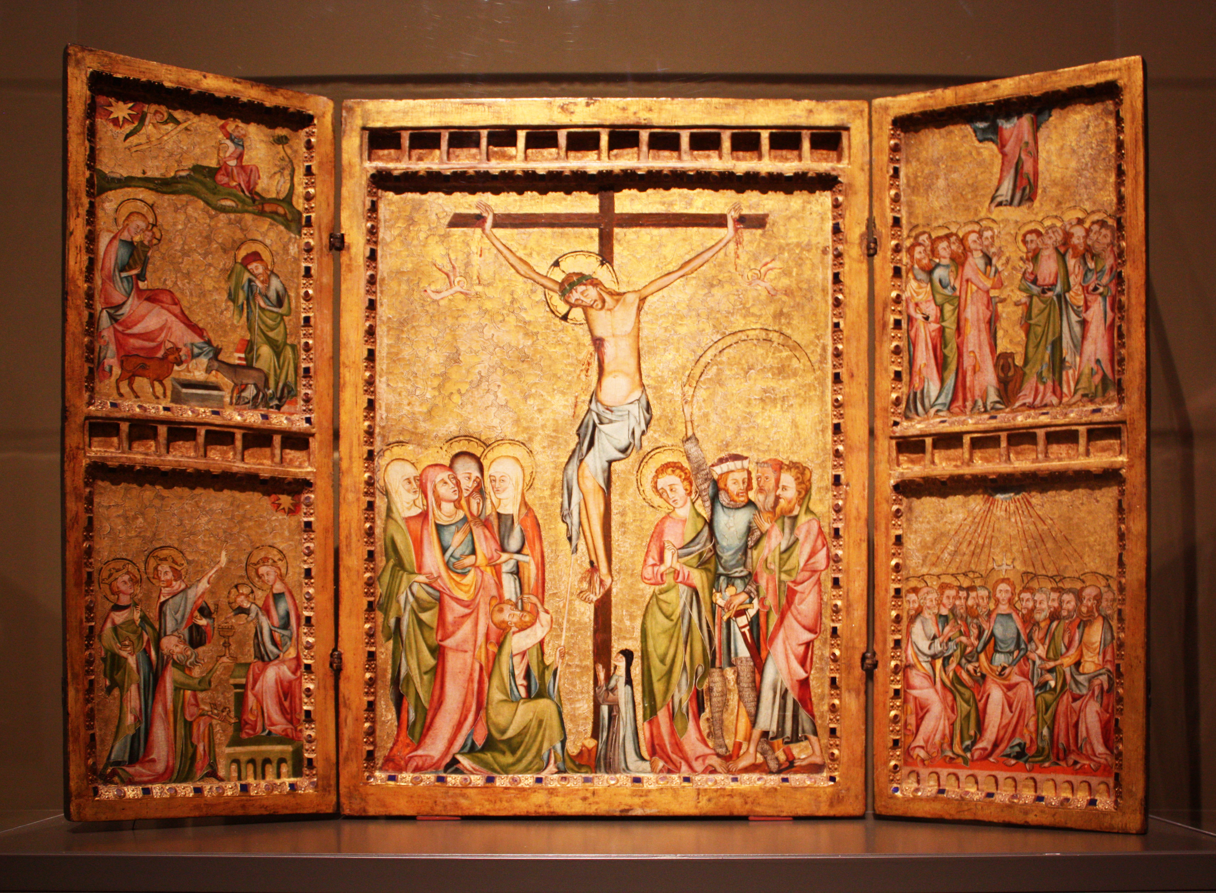 Triptych (1340-50) of the former minster Saint Klara in Cologne